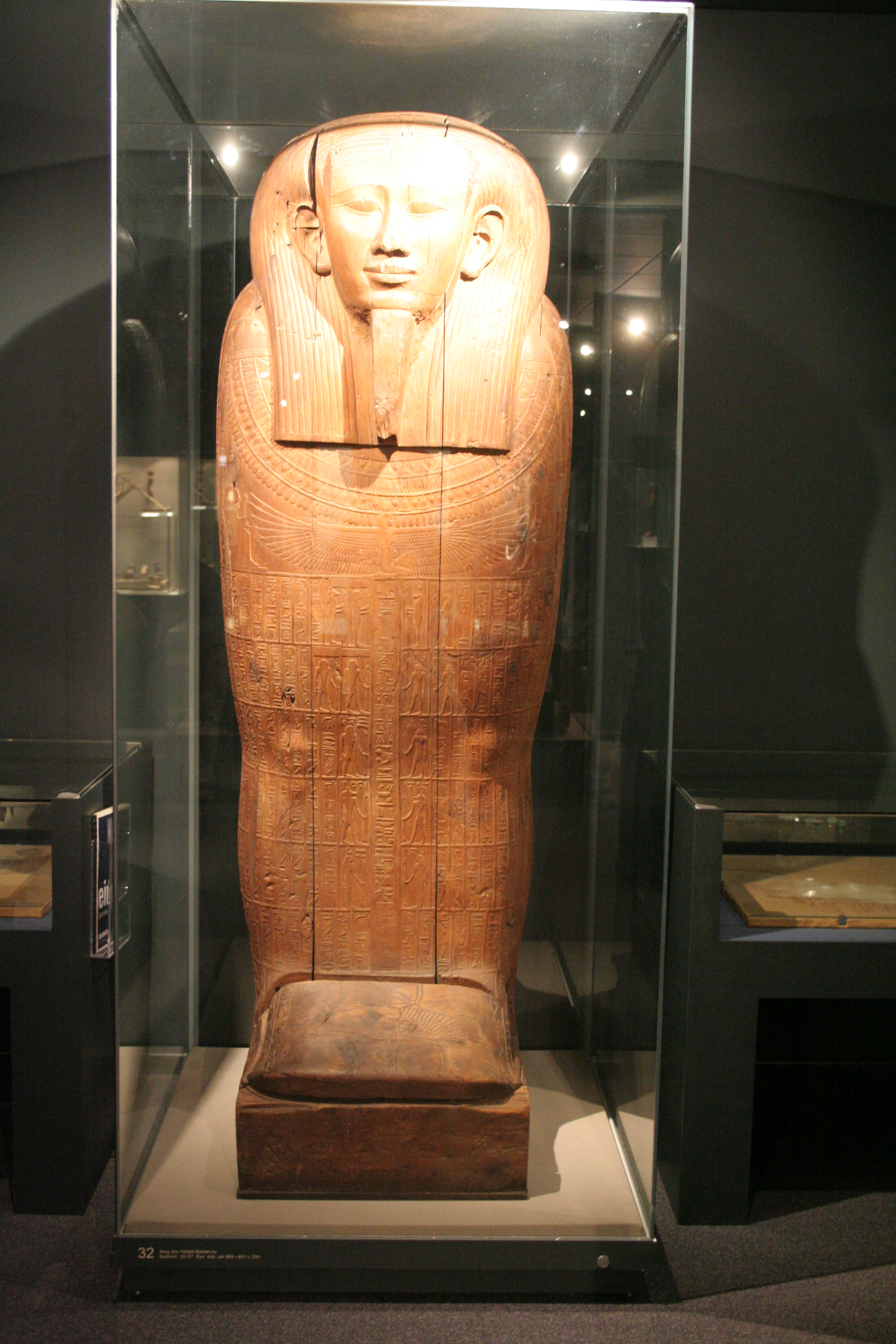 Coffin of Hedbastiru; provenance unknown, 4th to 3rd century BC